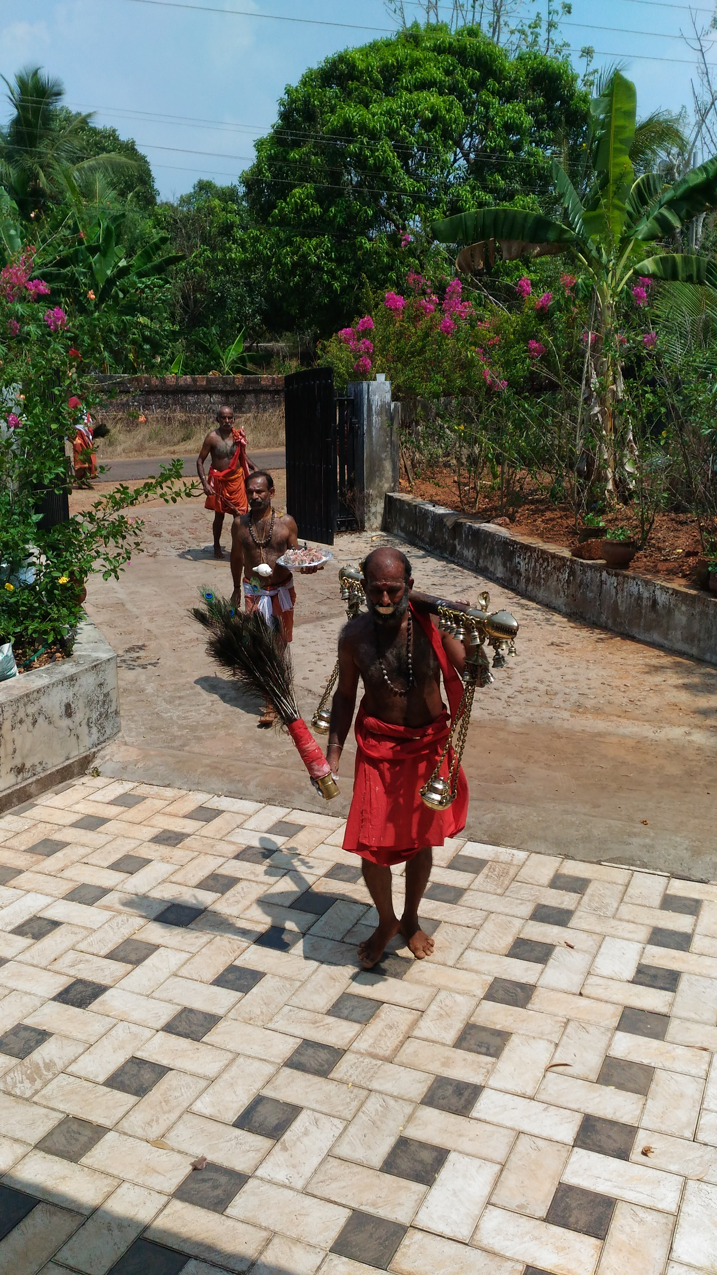 Devotees of Subramanya with Kavadi